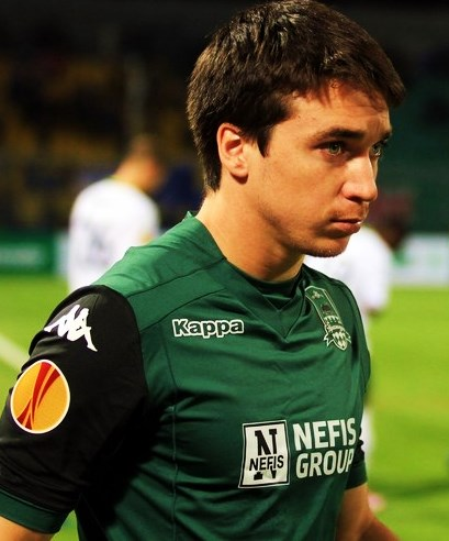 Mauricio Pereyra